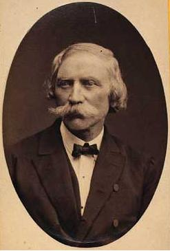 Photo of Christian Hansen